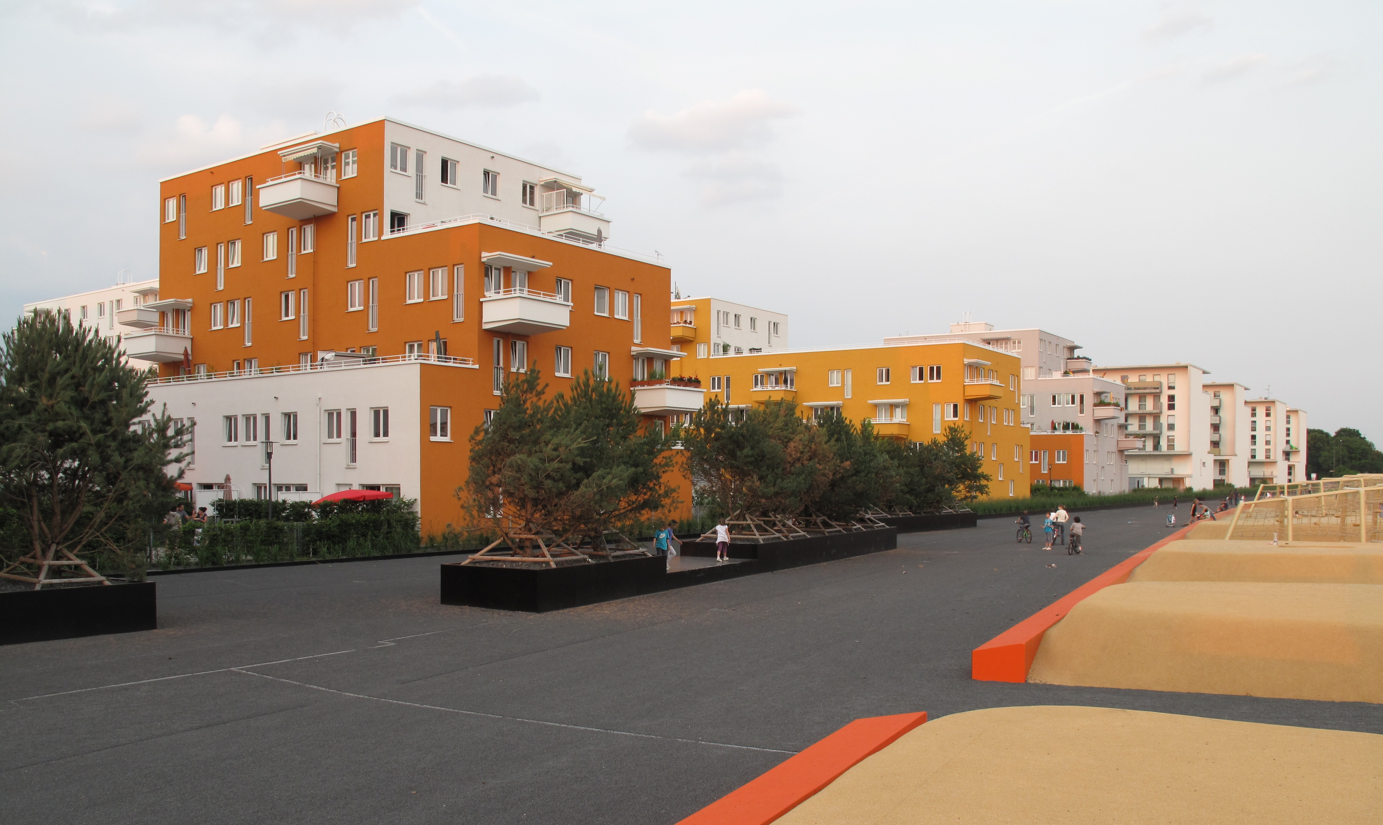 The Quartiersplatz Theresienhöhe in Munich's district Schwanthalerhöhe.